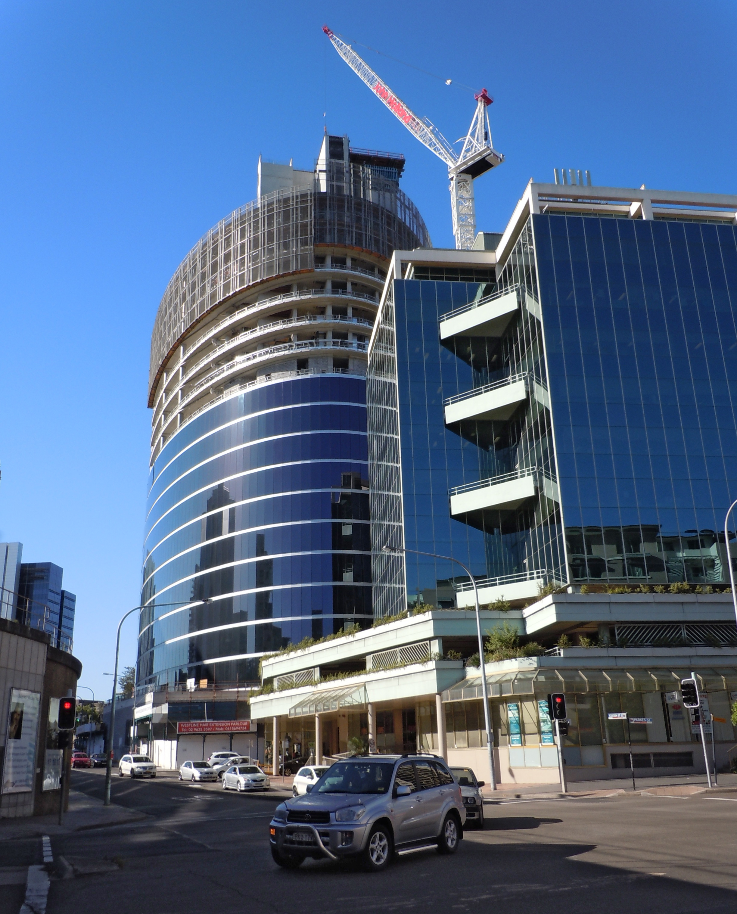 Eclipse Tower under construction. At 89m, this office tower was briefly the tallest building in Parramatta until the 90m B1 Tower was completed.